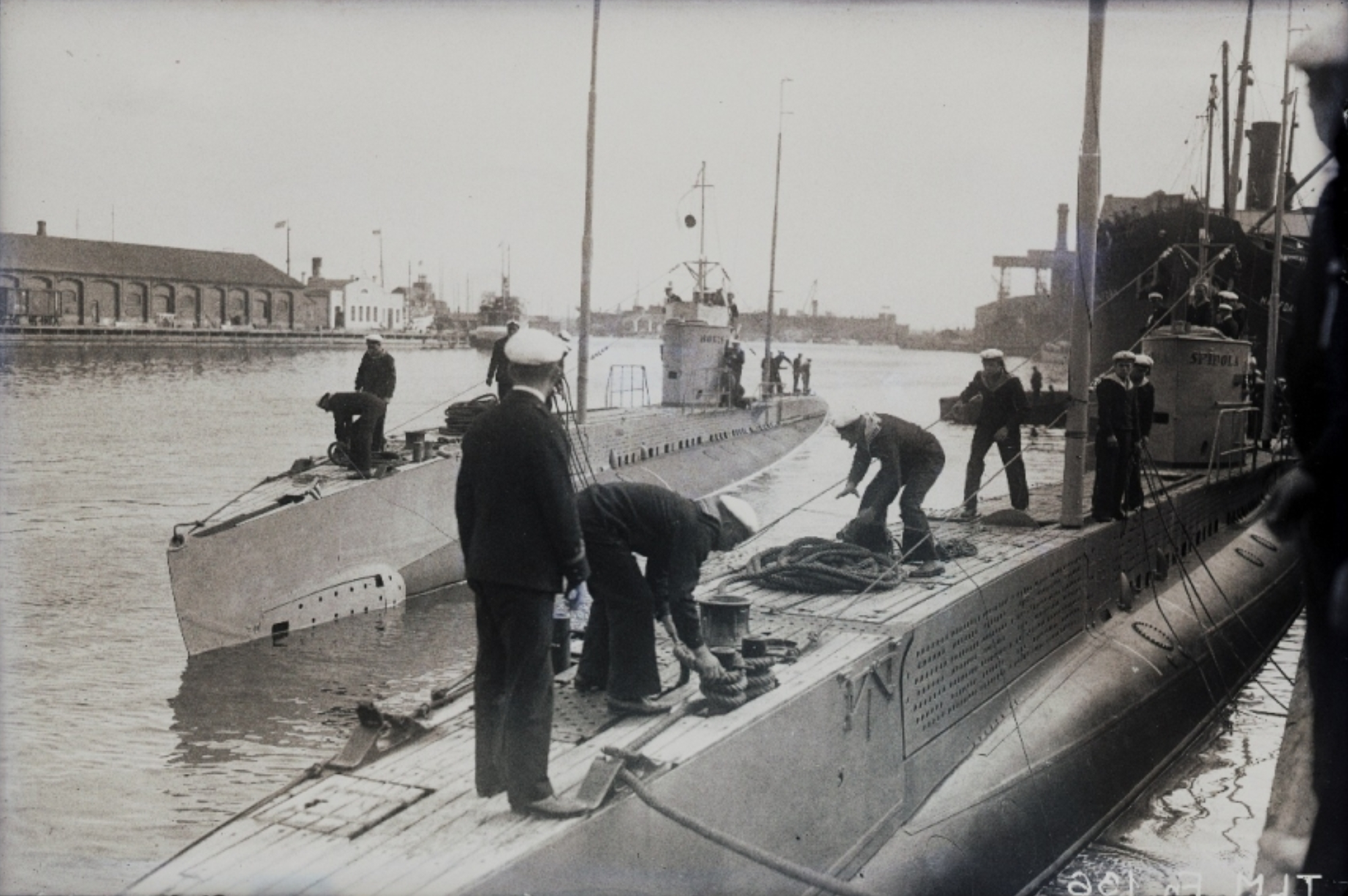 Ronis and Spidola in the port of Tallinn